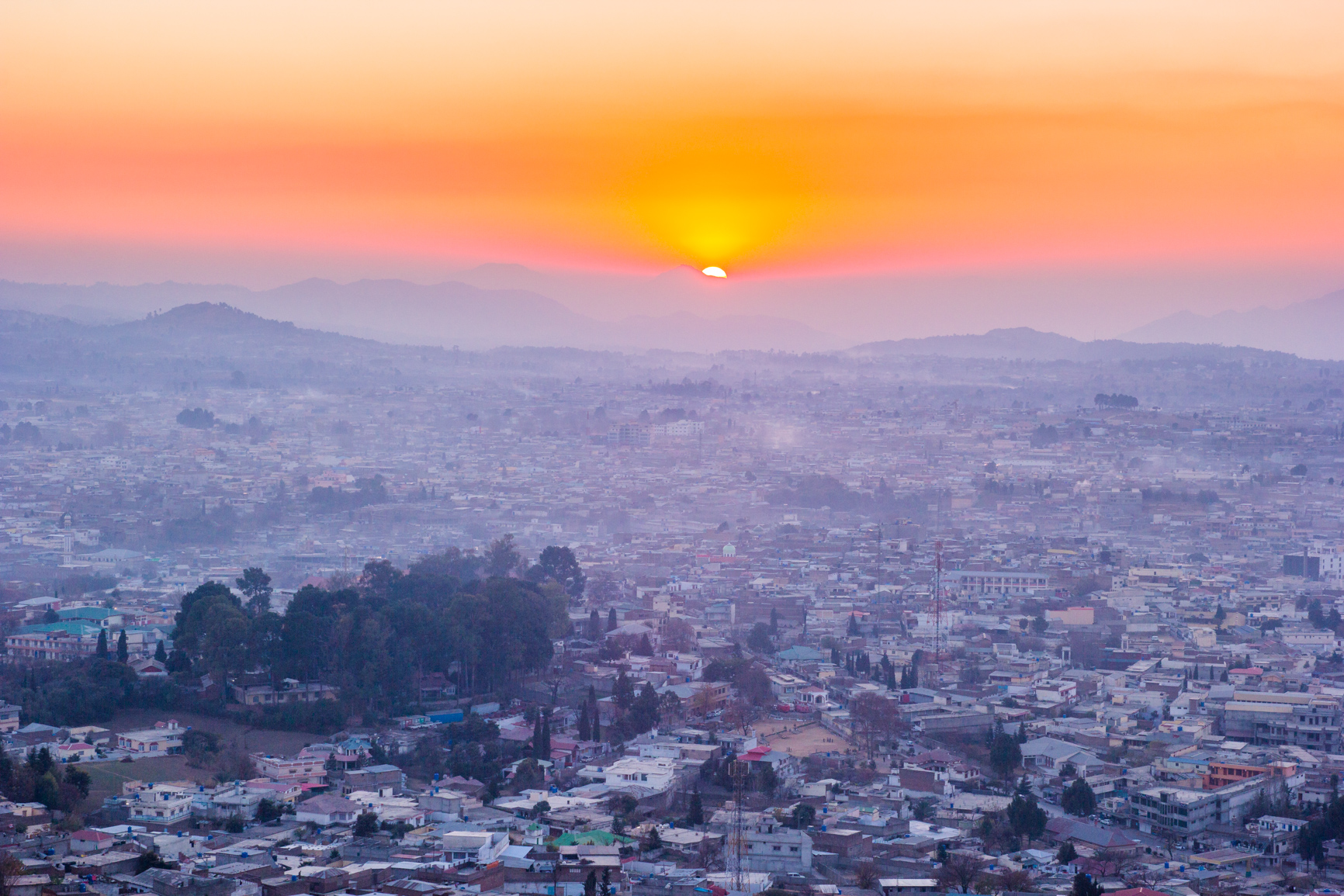 Mansehra city is located in KPK , Pakistan